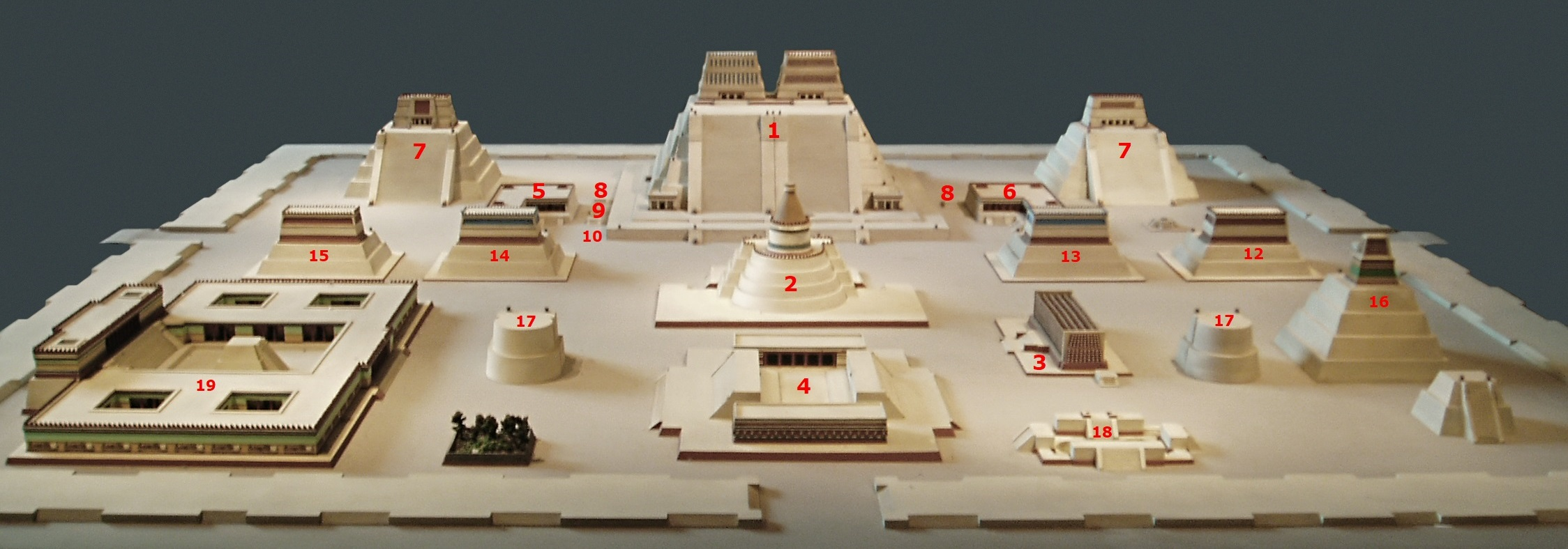 Tenochtitlan's Templo Mayor. Numbers as in : 1. Templo Mayor 2. Semi-circular Temple (dedicated to Ehecatl-Quetzalcoatl) 3. Tzompantli 4. Ballcourt 5. House of Eagles 6. House of Jaguars 7. Tezcatlipoca Temple 8. Southern Red Temple and Northern Red Temple 9. Tzompantli Altar 10. Shrine A 12. Temple of Xochiquetzal 13. Temple of Chicomecoatl 14. Temple of Cihuacoatl 15. Temple of Coacalco 16. Temple of Tonatiuh (Temple of the Sun) 17. Shrine of Ehecatl 18. Tozpalatl 19. Calmecac